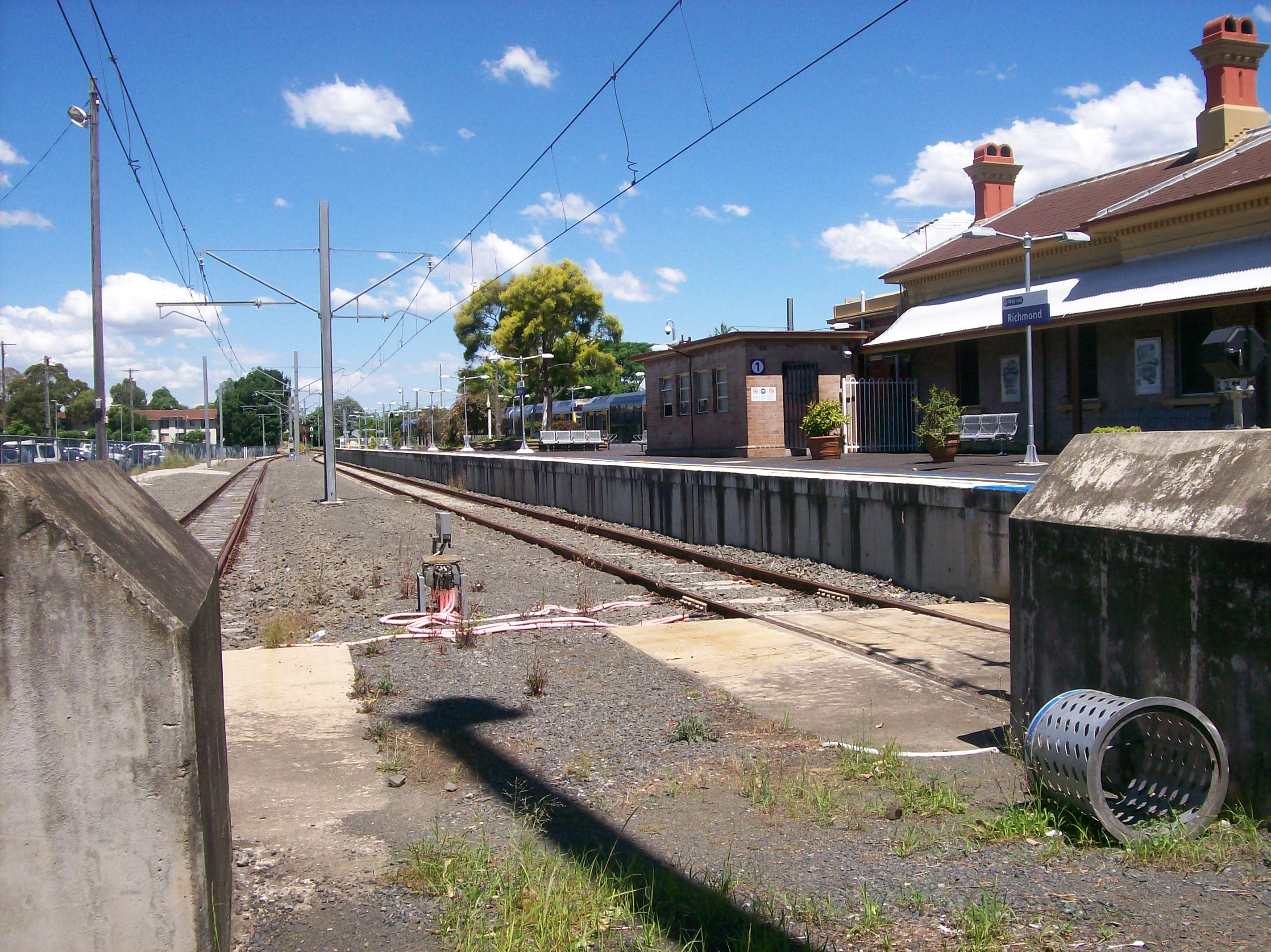 Richmond railway station platform 1 from exterior